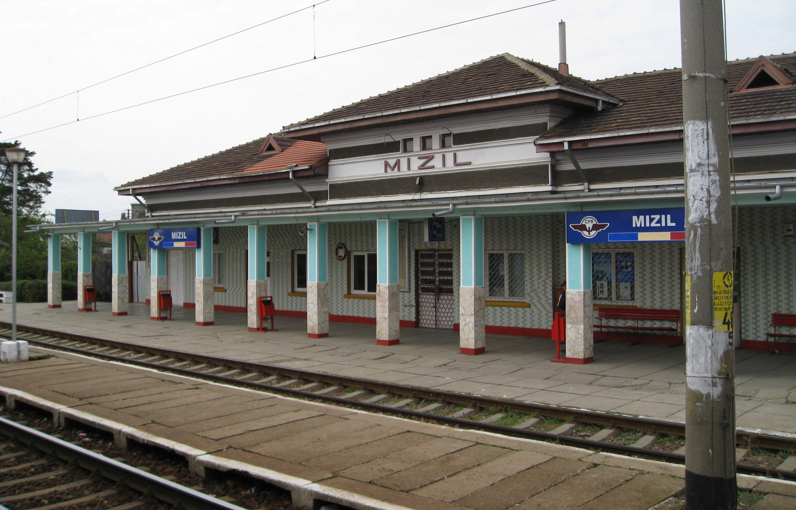 Railway station, Mizil, Prahova County, Romania